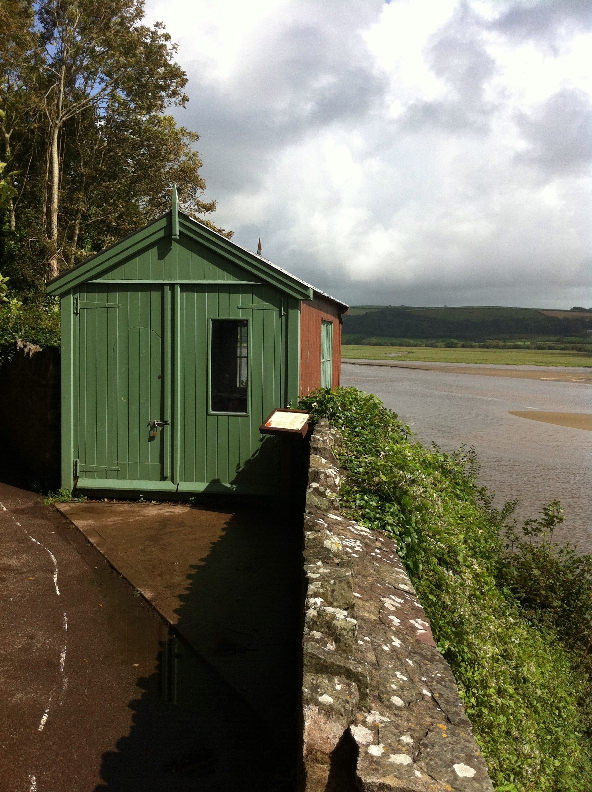 Dylan Thomas Writing Shed